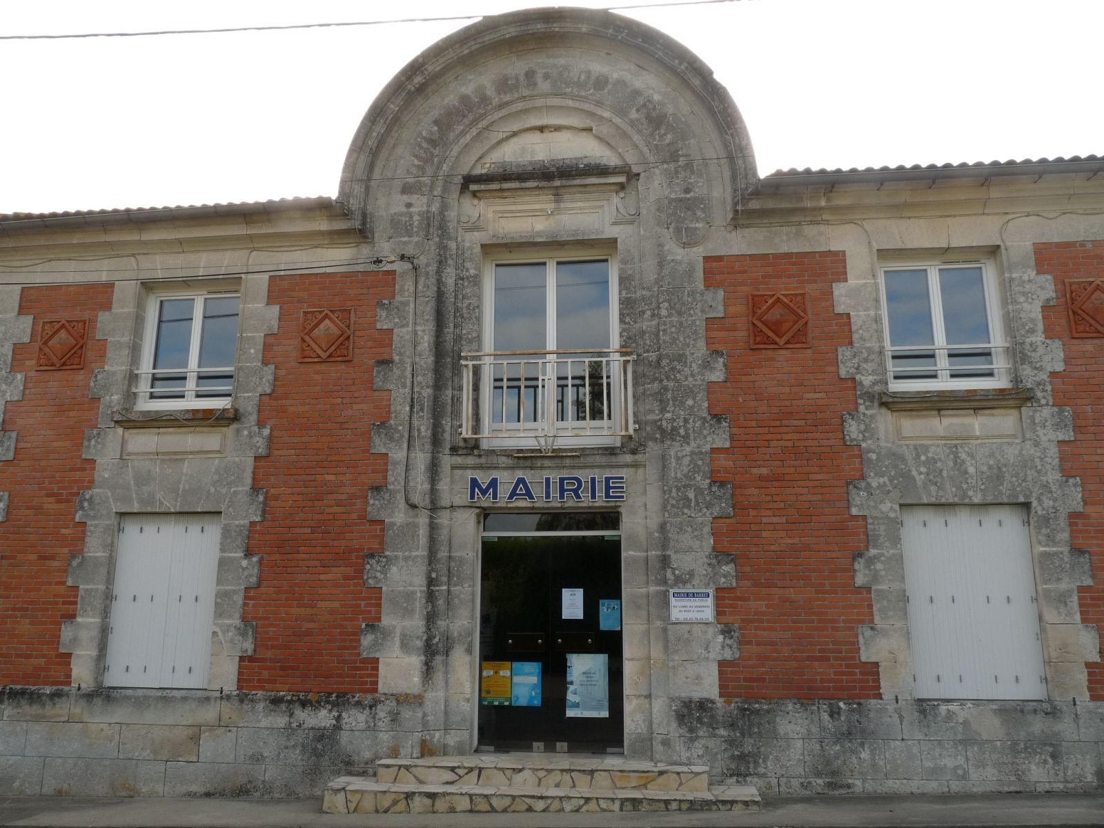 town hall of Barret, Charente, SW France